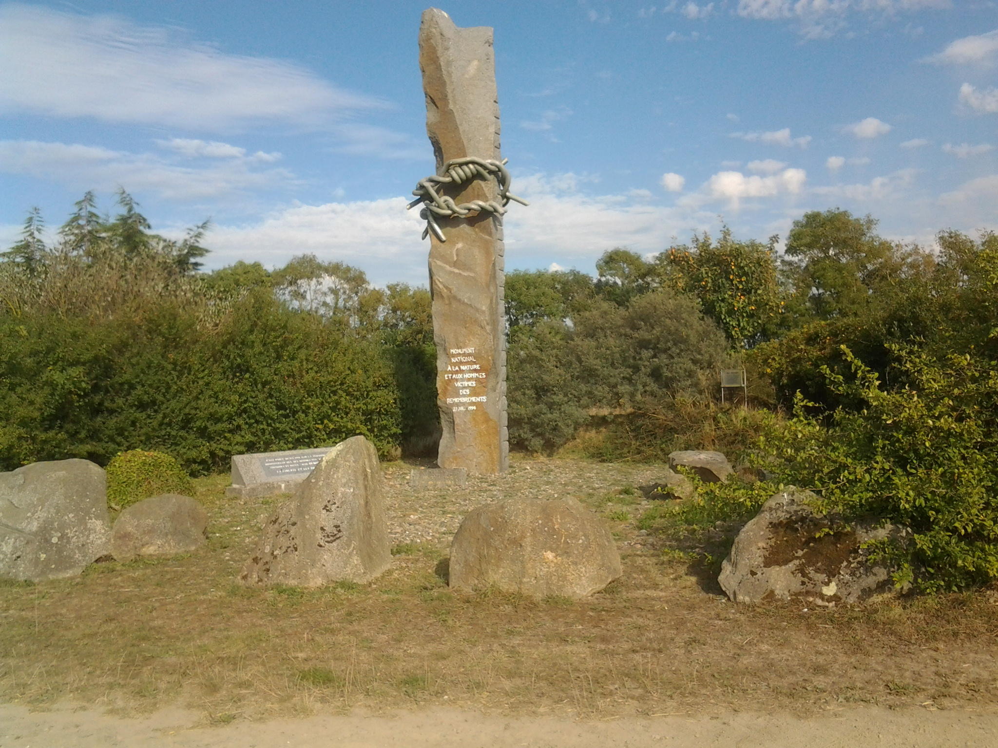 National Monument to the memory of nature and victims of land consolidation.